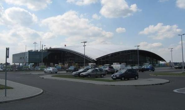 Rzeszow - Jasionka (RZE) International Airport - Poland [terminal]